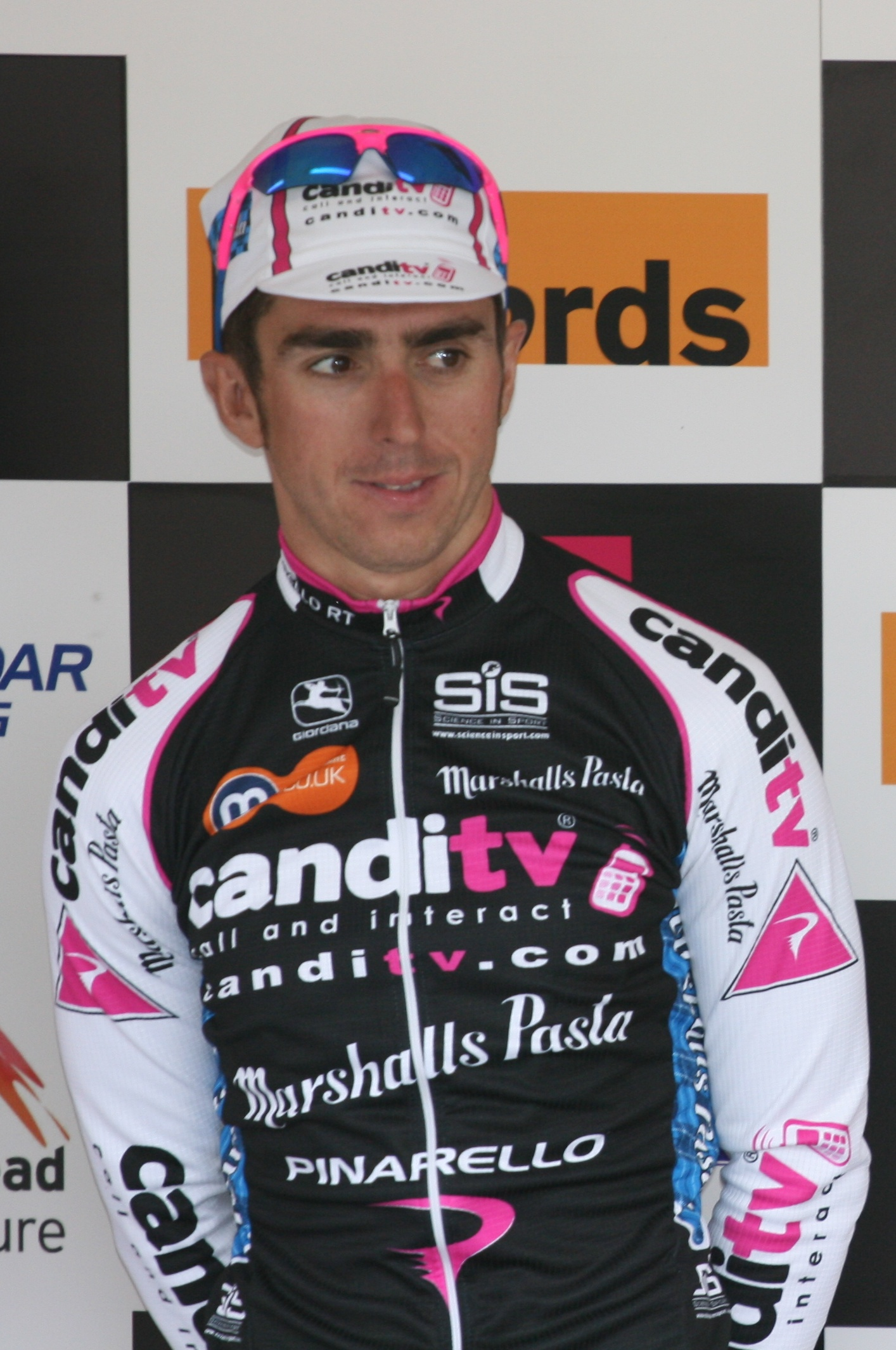 Russell Downing in Stamfordham after the 2009 Northern Rock Cyclone Beaumont Trophy.